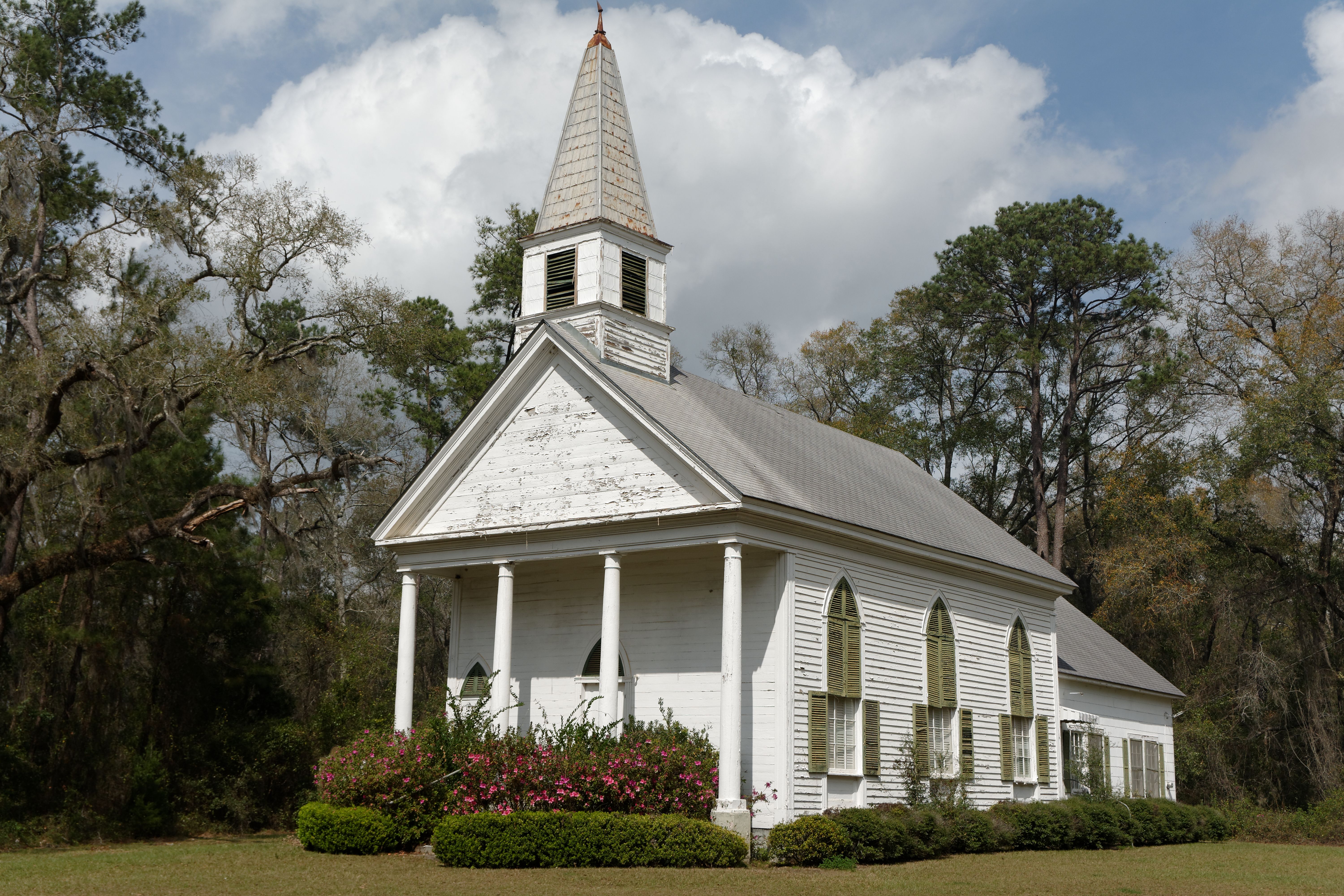 Liberty Baptist Church, Brooks County, Georgia, U.S.